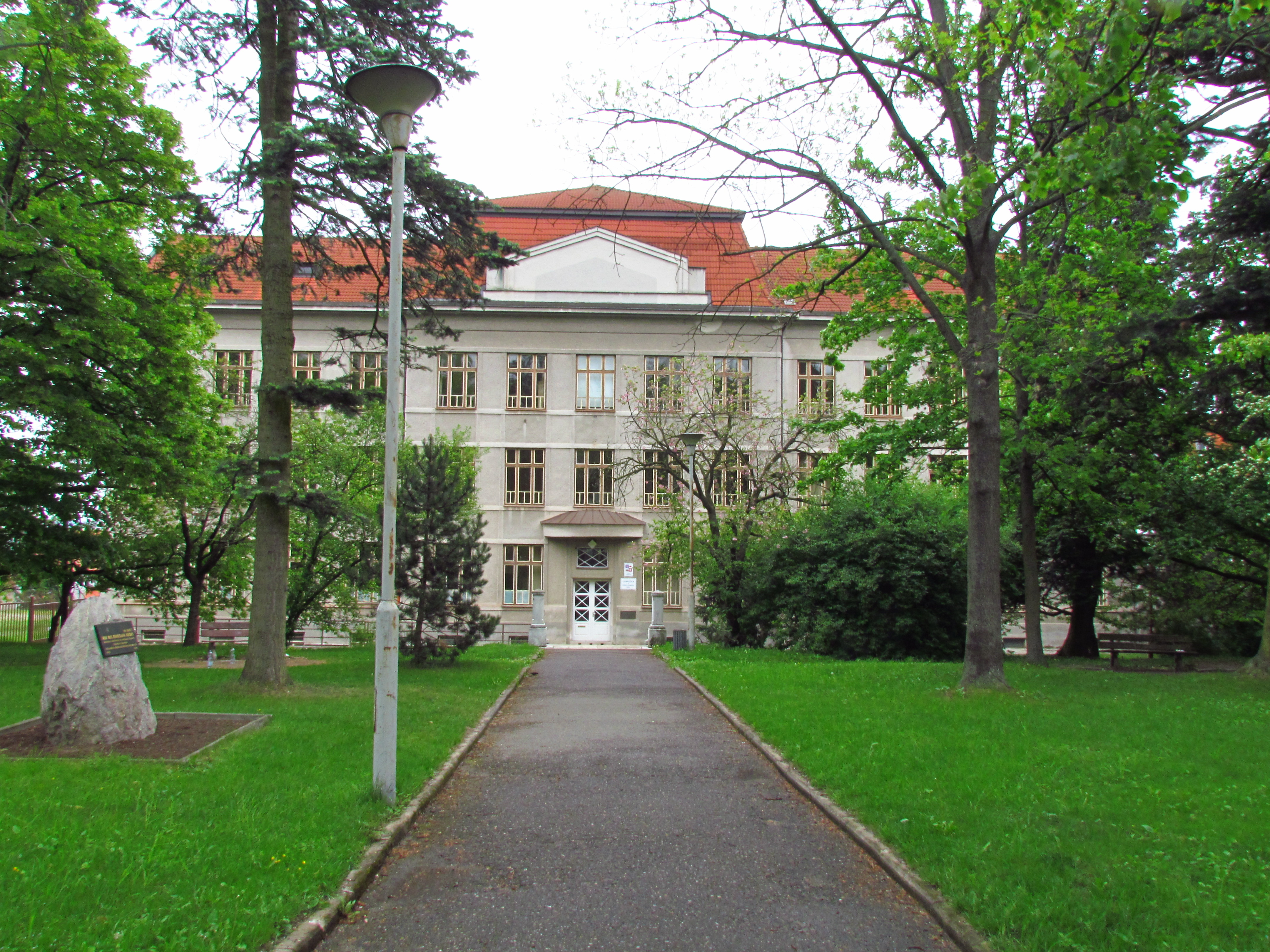 Gymnasium in Moravské Budějovice, Třebíč District.